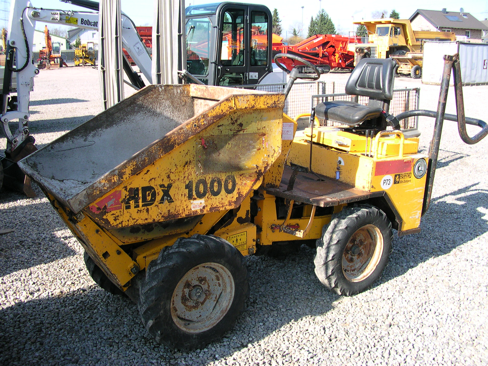 Barford HDX 1000 high discharge site dumper (1000 kg payload, built 2001)